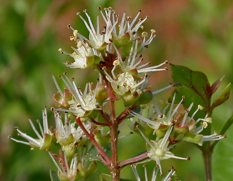 Mehndi or Henna Lawsonia inermis in Hyderabad , India.